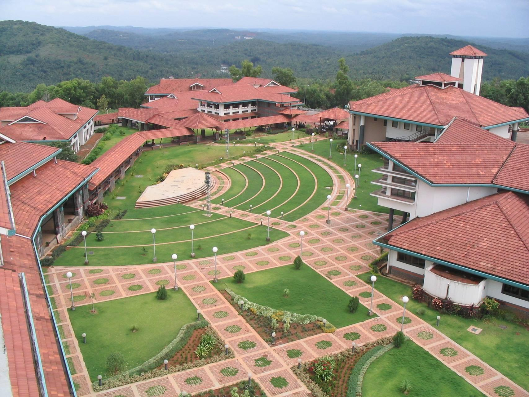 This is the aerial view of the campus taken from one of the water towers.